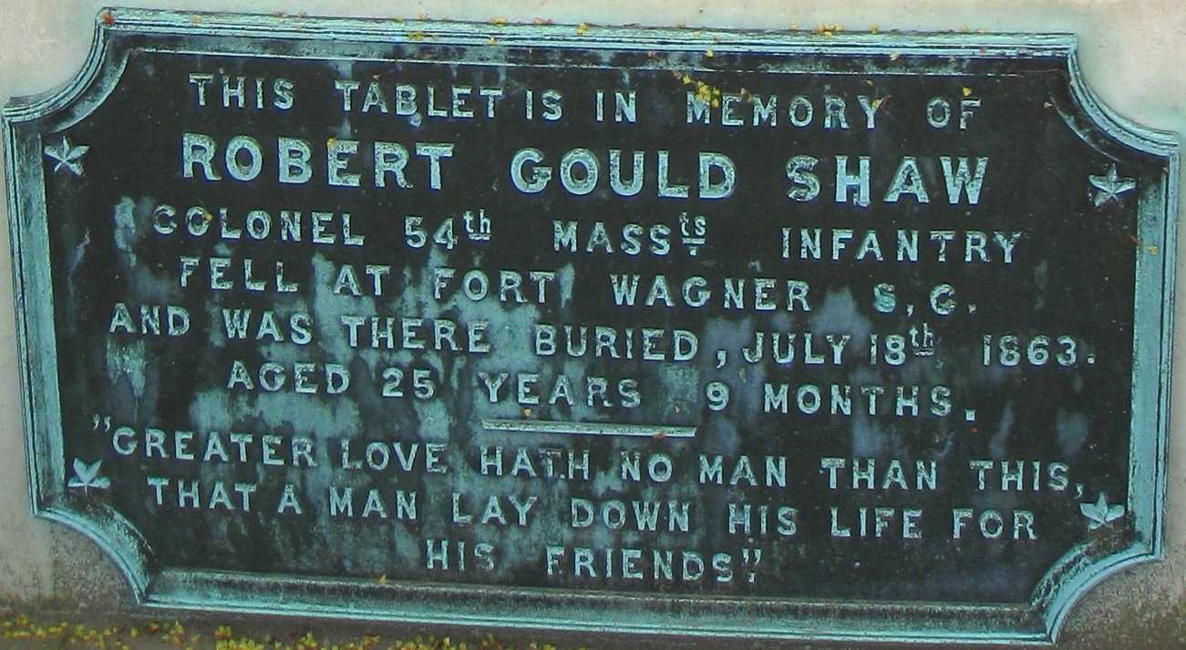 Robert Gould Shaw memorial, created in the 1840s. Brownstone enclosure with ancient classical marble insert and an added 1860s bronze plaque commemorating his grandson Col. Robert Gould Shaw, officer of the Civil War 54th Regiment of African-American soldiers. Monument designed by architect Hammatt Billings and executed by sculptor Alpheus Cary. Mount Auburn Cemetery, Cambridge, Massachusetts, USA.